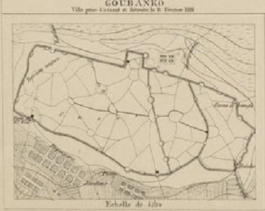 Plan of Goubanko